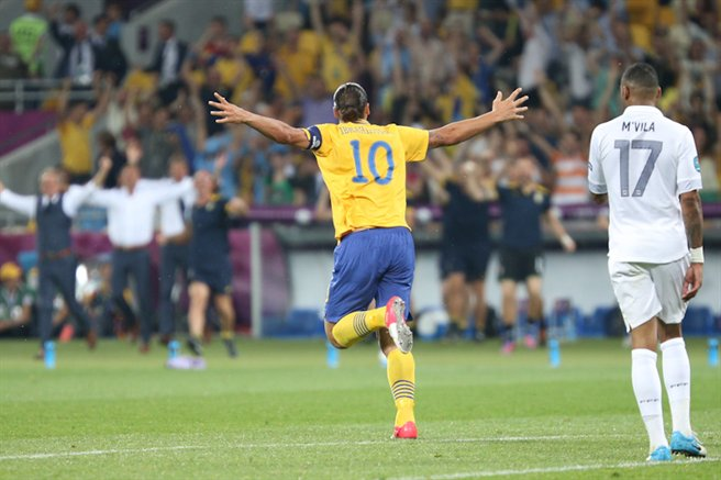 Zlatan Ibrahimović goal celebretion at the Euro 2012 match against France